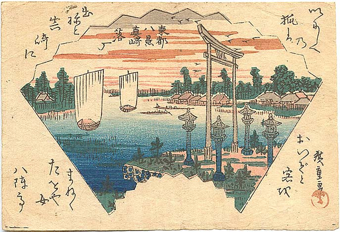 early Hiroshige print, series “Eight Views of the Eastern Capital“, koban, 1820s